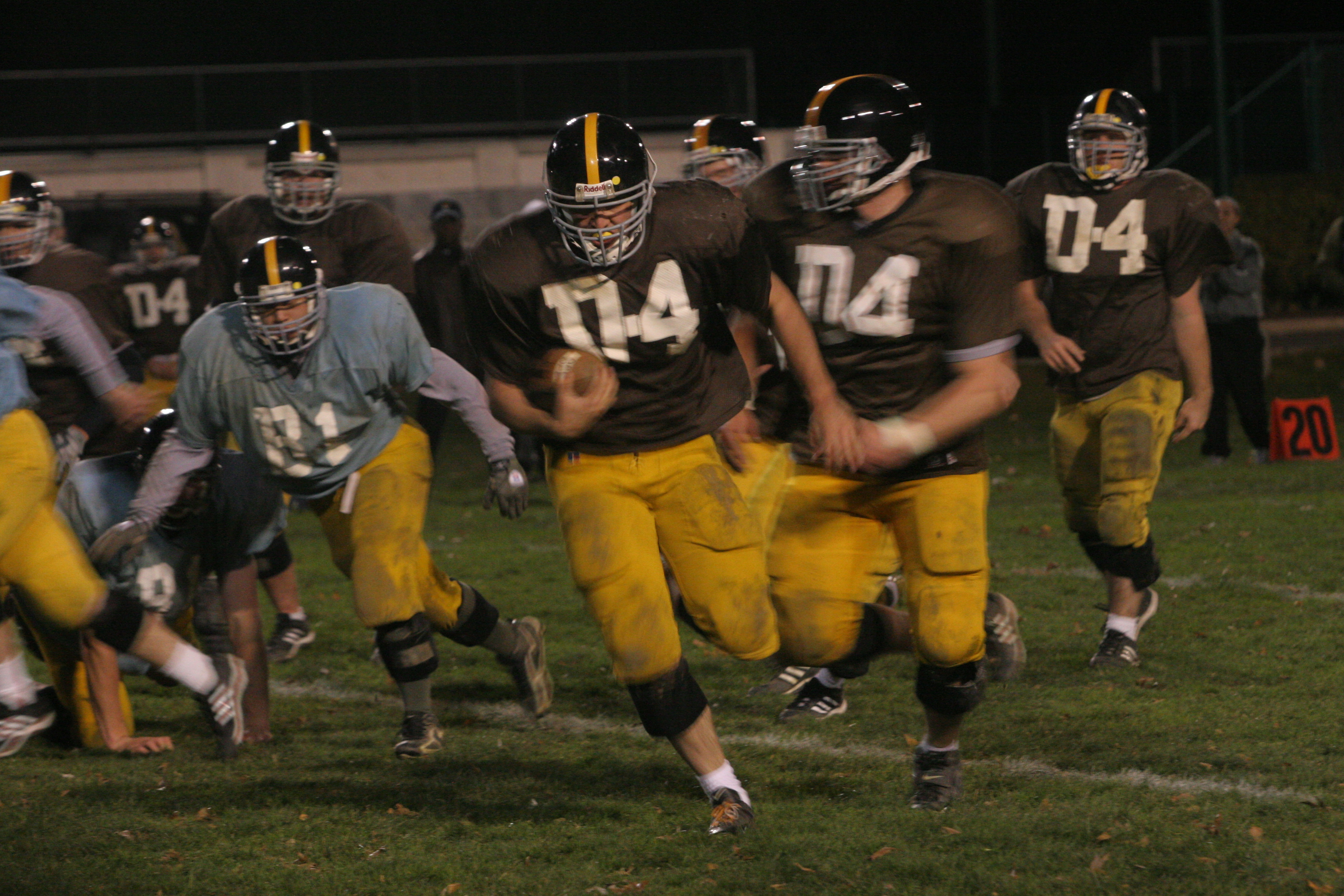 Action shot from CA Football Finals, Nov 19 2008, Daly Field, West Point, NY